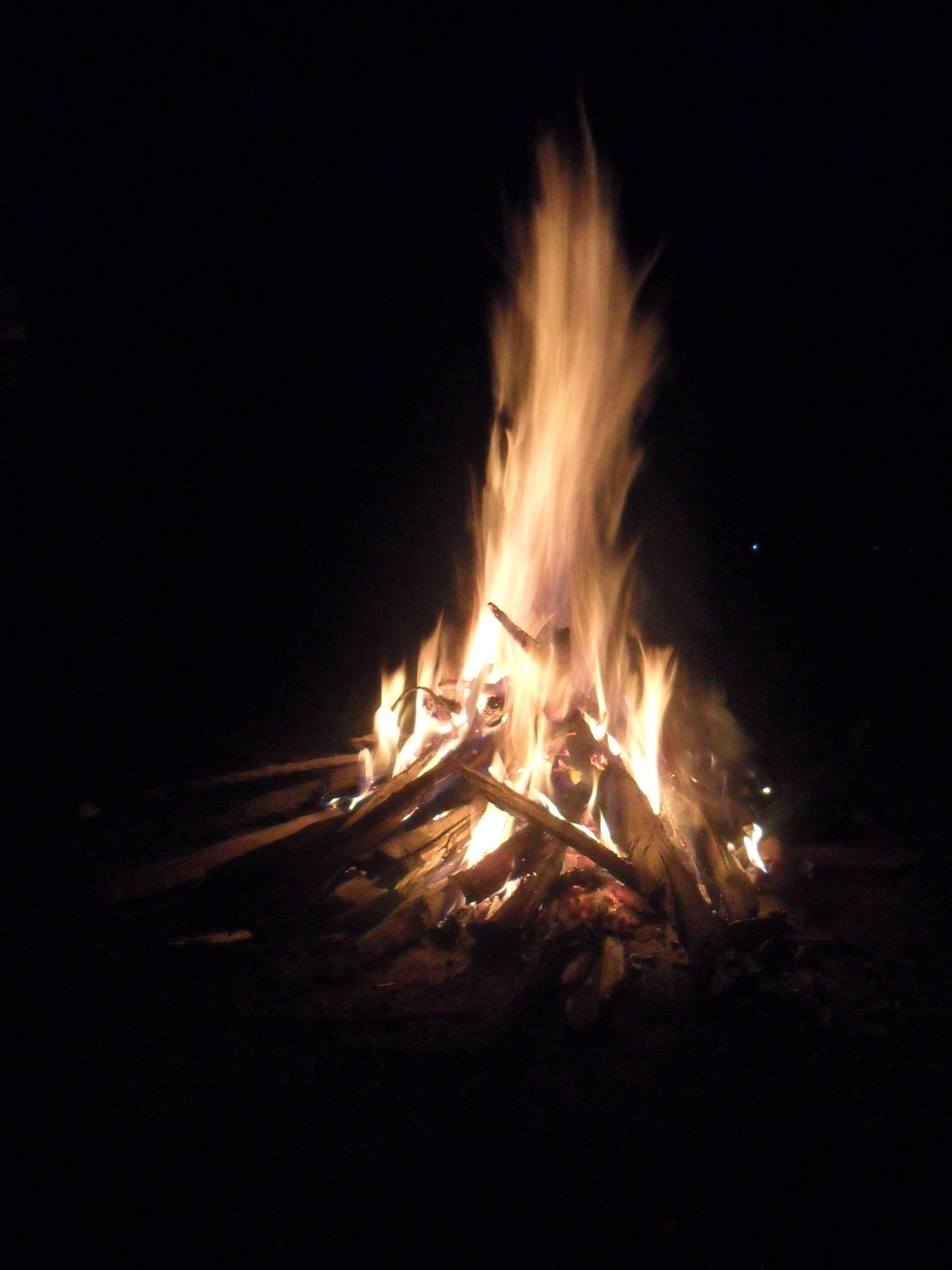 burning wood